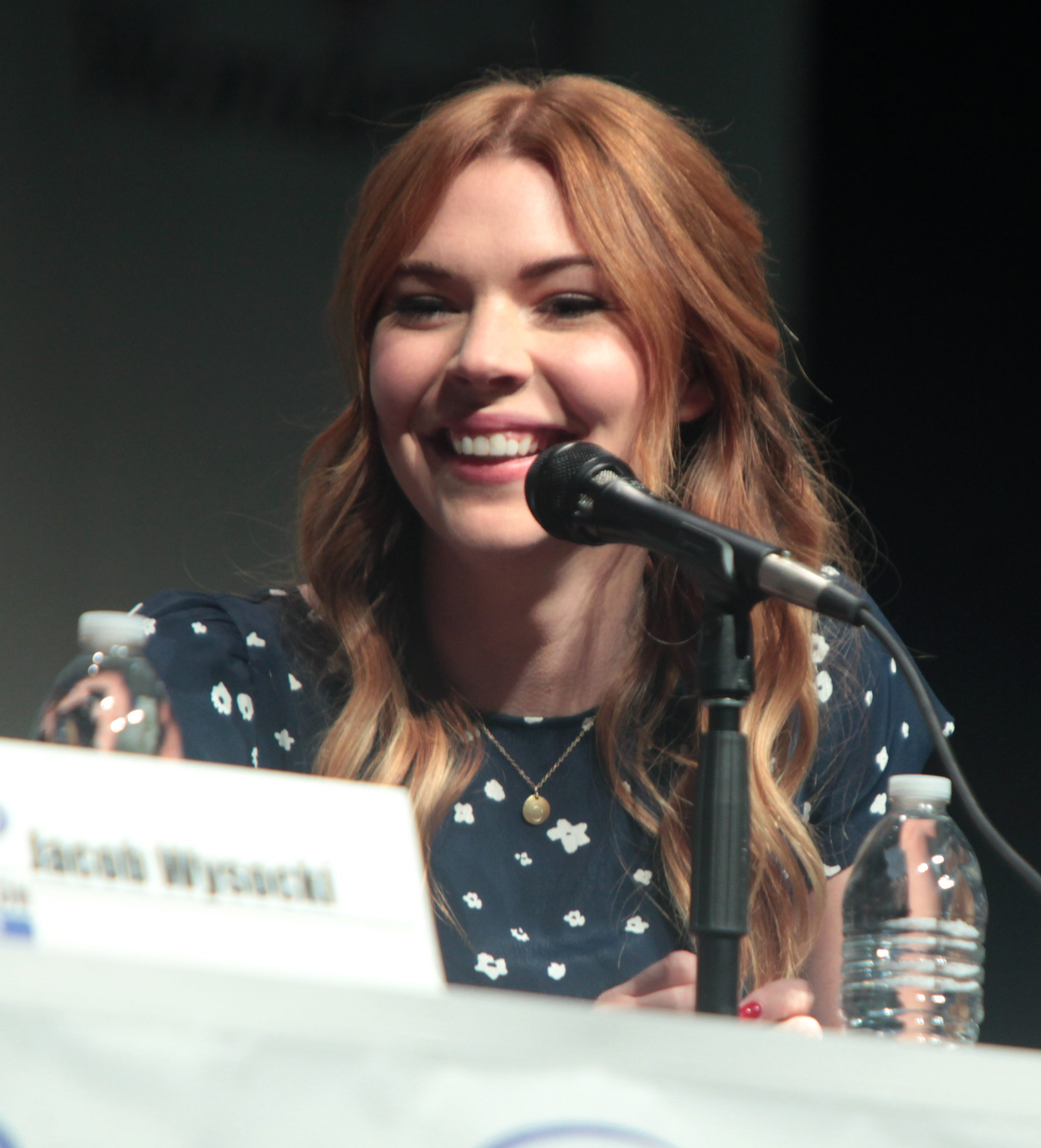 Courtney Halverson speaking at the 2015 Wondercon, for "Unfriended", at the Anaheim Convention Center in Anaheim, California.